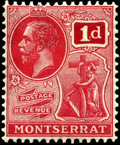 Montserrat 1-penny stamp of 1929